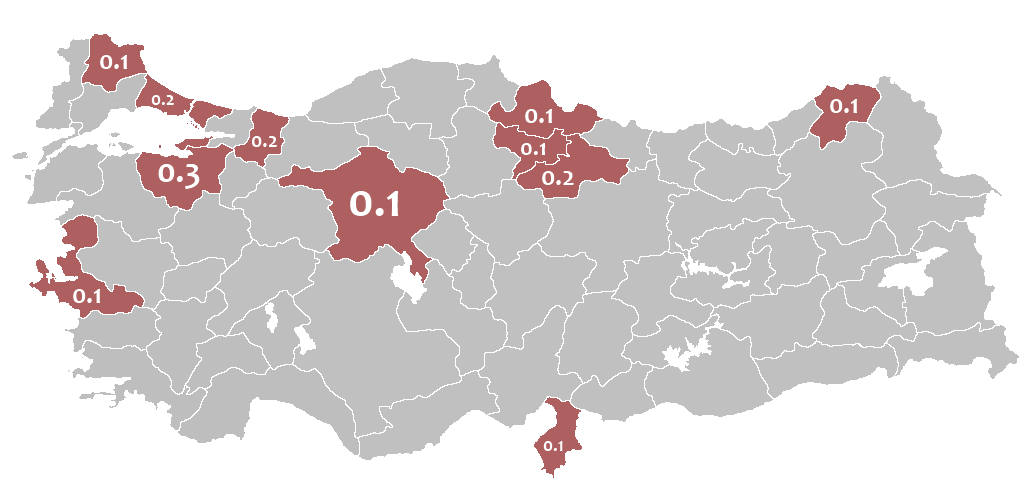 This map shows the distribution of people who spoke Albanian in 1965's Turkey.